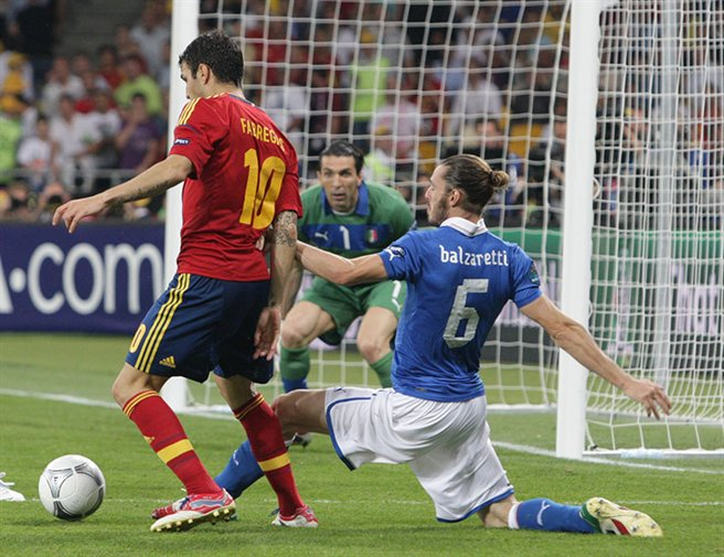 Cesc Fàbregas and Federico Balzaretti at Euro 2012 final Spain-Italy